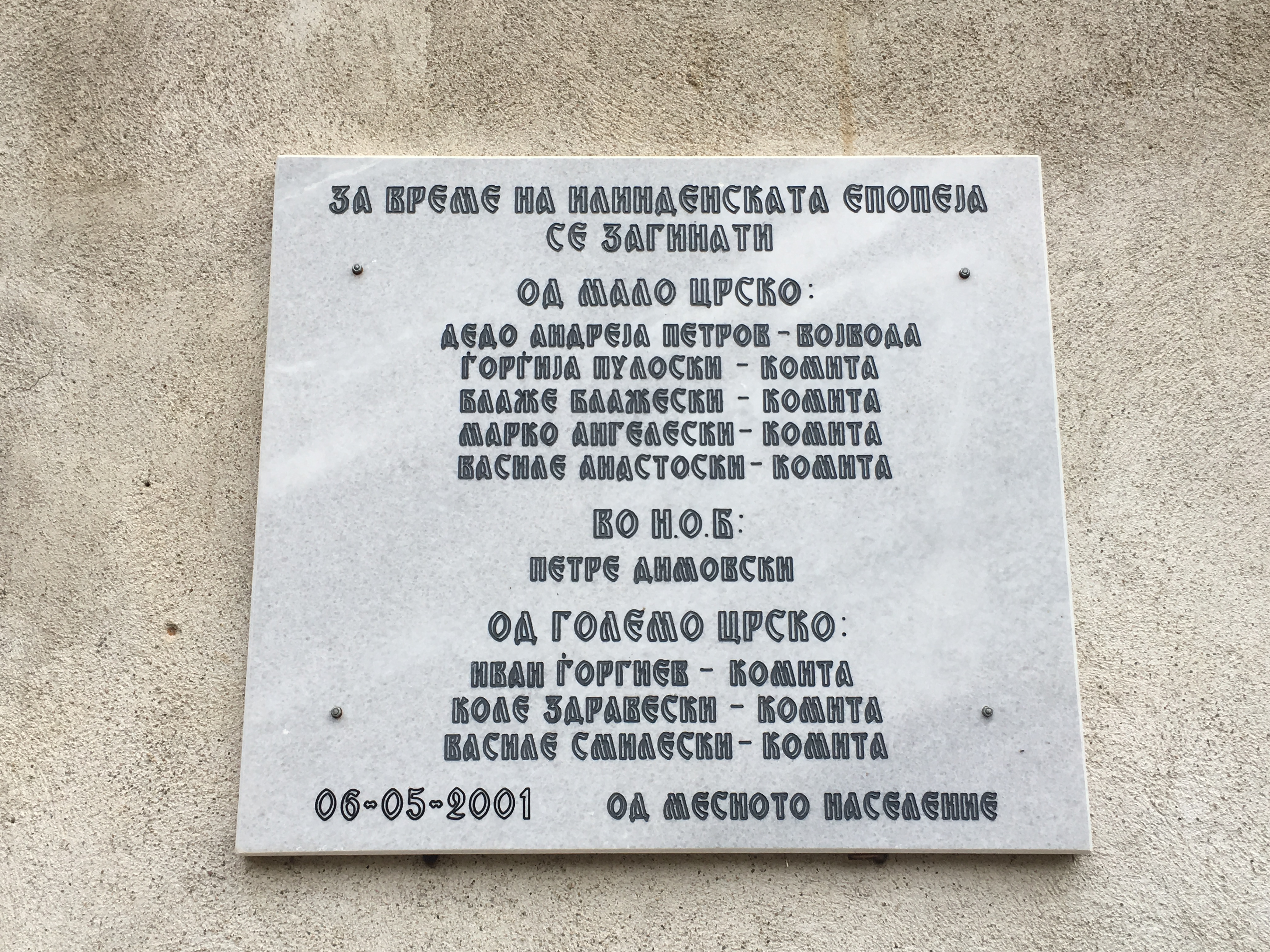 Wikiexpedition to Kopačka